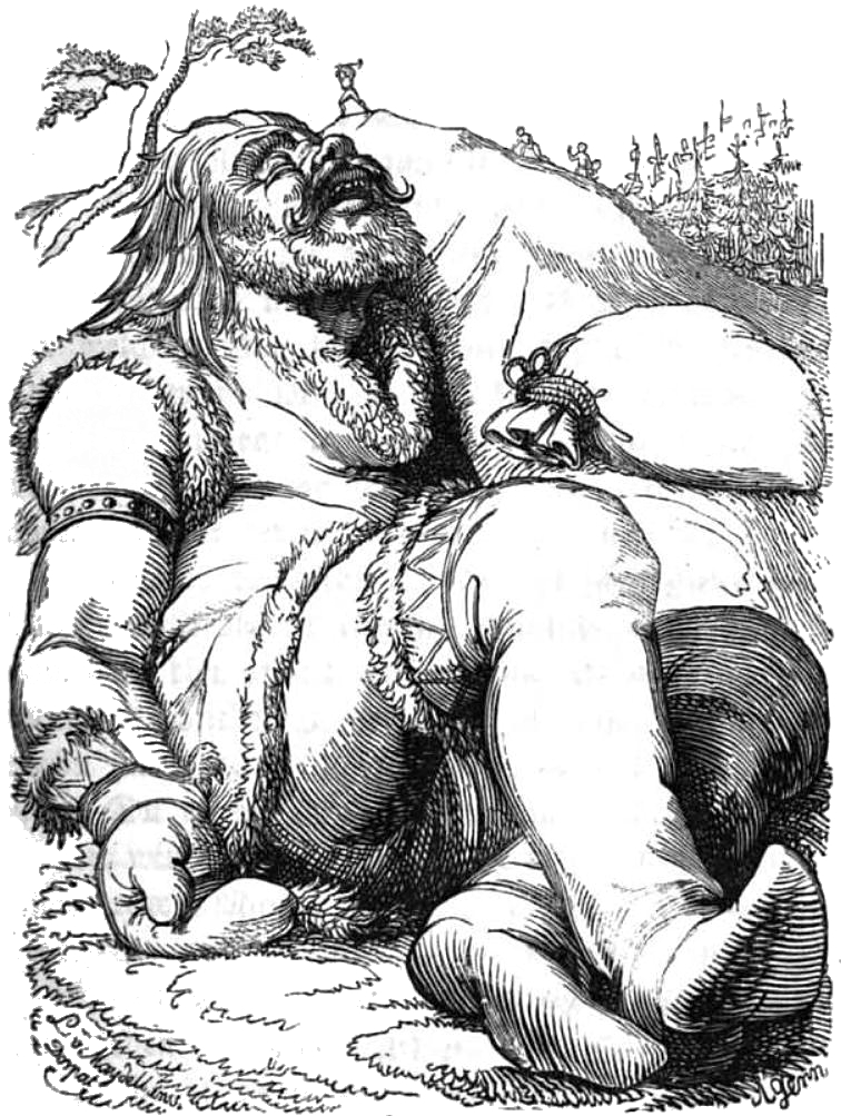 The giant Skrýmir is sleeping while Thor brandishes his hammer against him